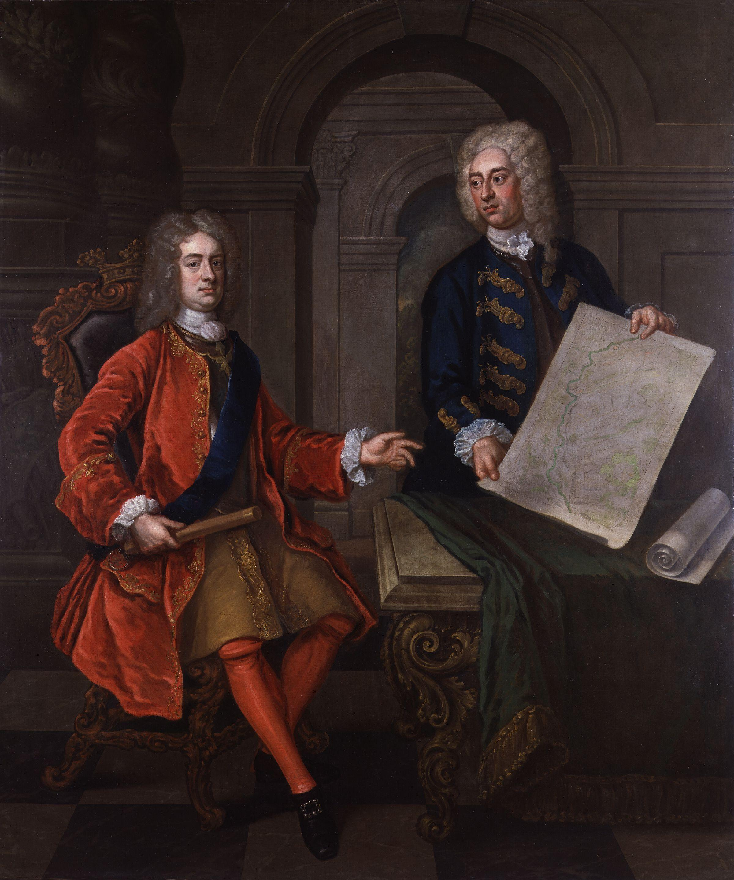 John Churchill, 1st Duke of Marlborough; John Armstrong, by unknown artist. All images in this batch are listed as "unknown author" by the NPG, who is diligent in researching authors, and was donated to the NPG before 1939 according to their website.